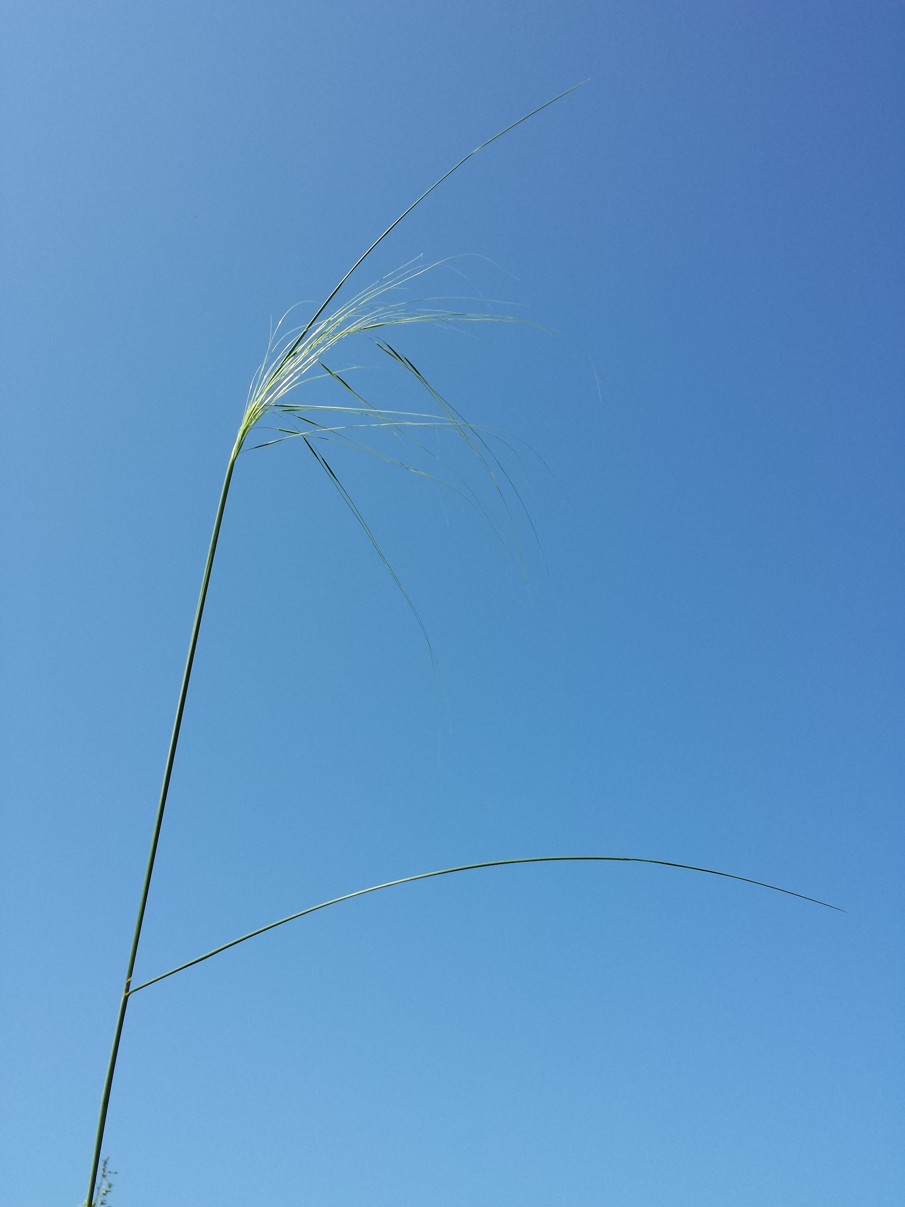 Habitus Taxonym: Stipa capillata ss Fischer et al. EfÖLS 2008 ISBN 978-3-85474-187-9 Location: Geißberg near Eggendorf im Thale, district Hollabrunn, Lower Austria - ca. 300 m a.s.l. Habitat: semi-dry grassland